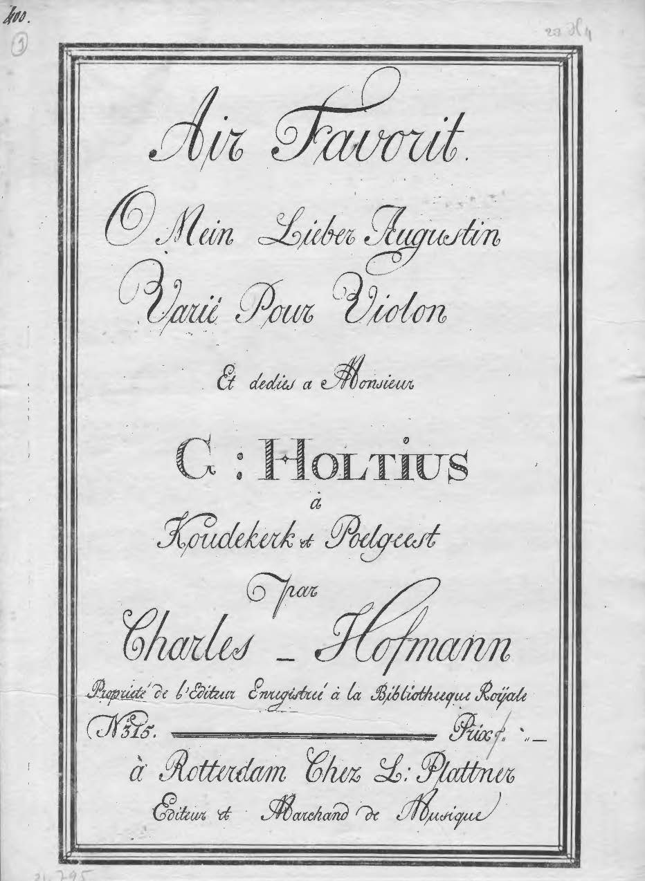 Frontispiece of the violin composition "Air Favorit (Oh mein lieber Augustin)" by Charles Hofmann (1763-1823) published by Lodewijk Plattner in Rotterdam in 1809